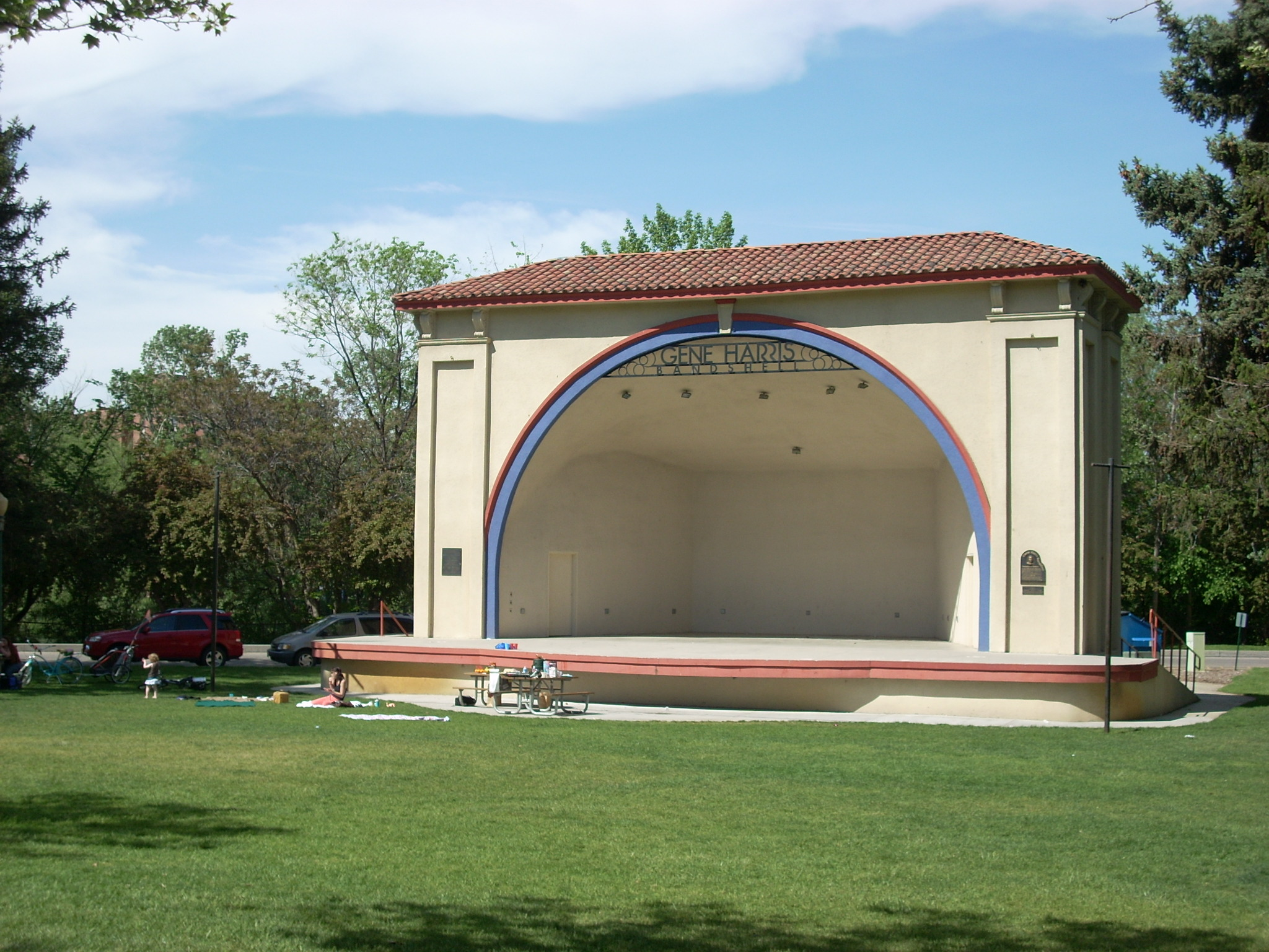 Julia Davis Park's large Gene Harris Bandshell